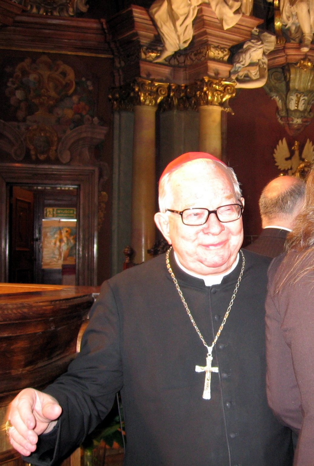 Cardinal Henryk Roman Gulbinowicz, born 1923, in Auditorium Academicum (University of Wrocław), March 23rd 2007